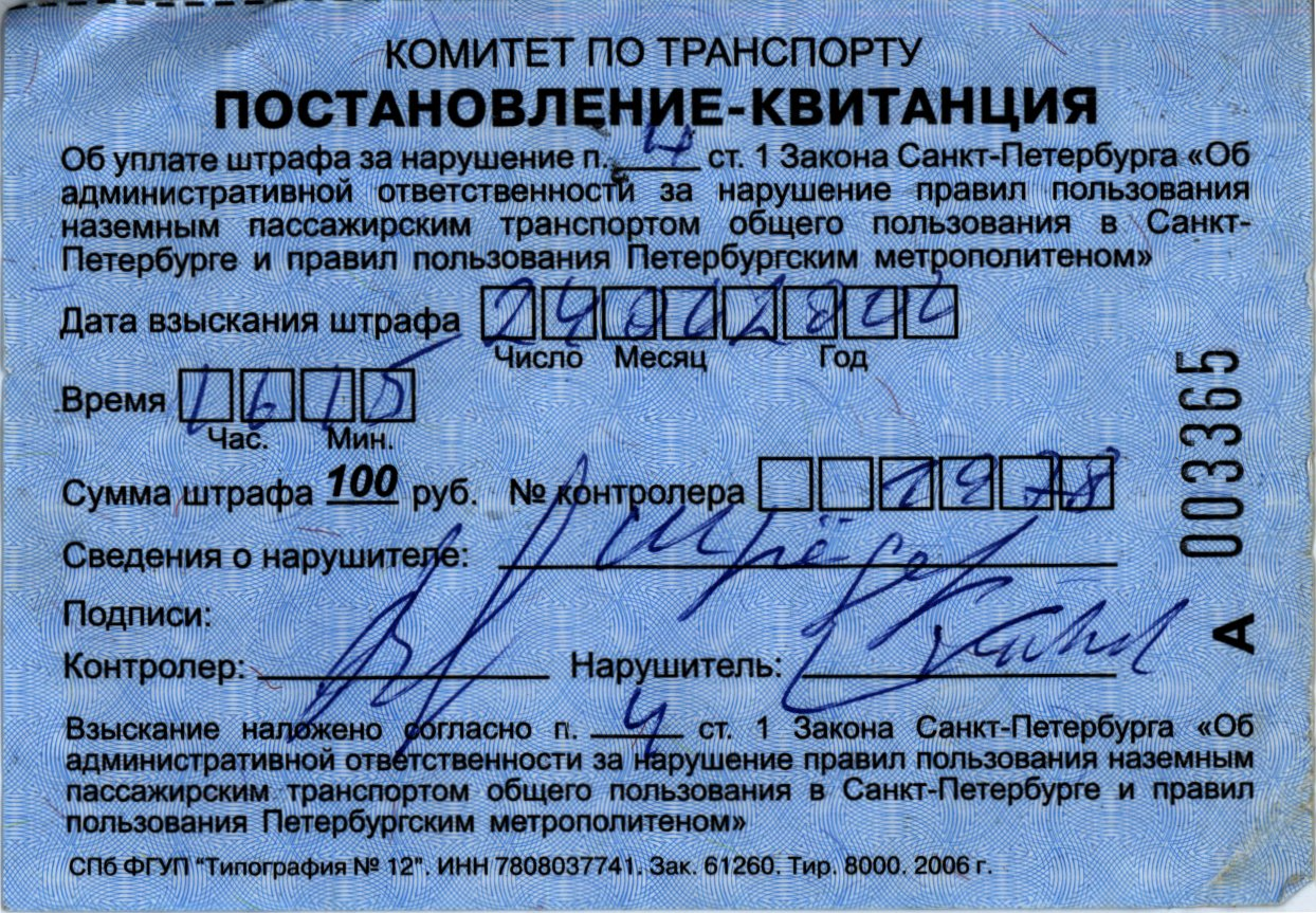 Ticket for taking photos in St.Petersburg Metro